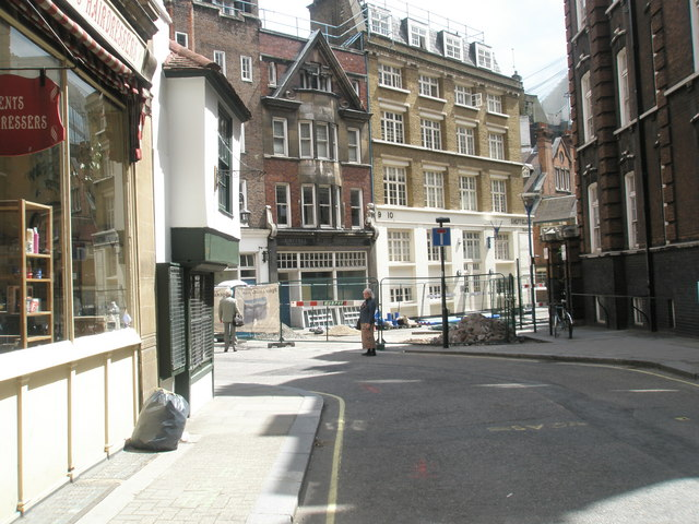 Looking past The Old Curiosity Shop into Sheffield Street